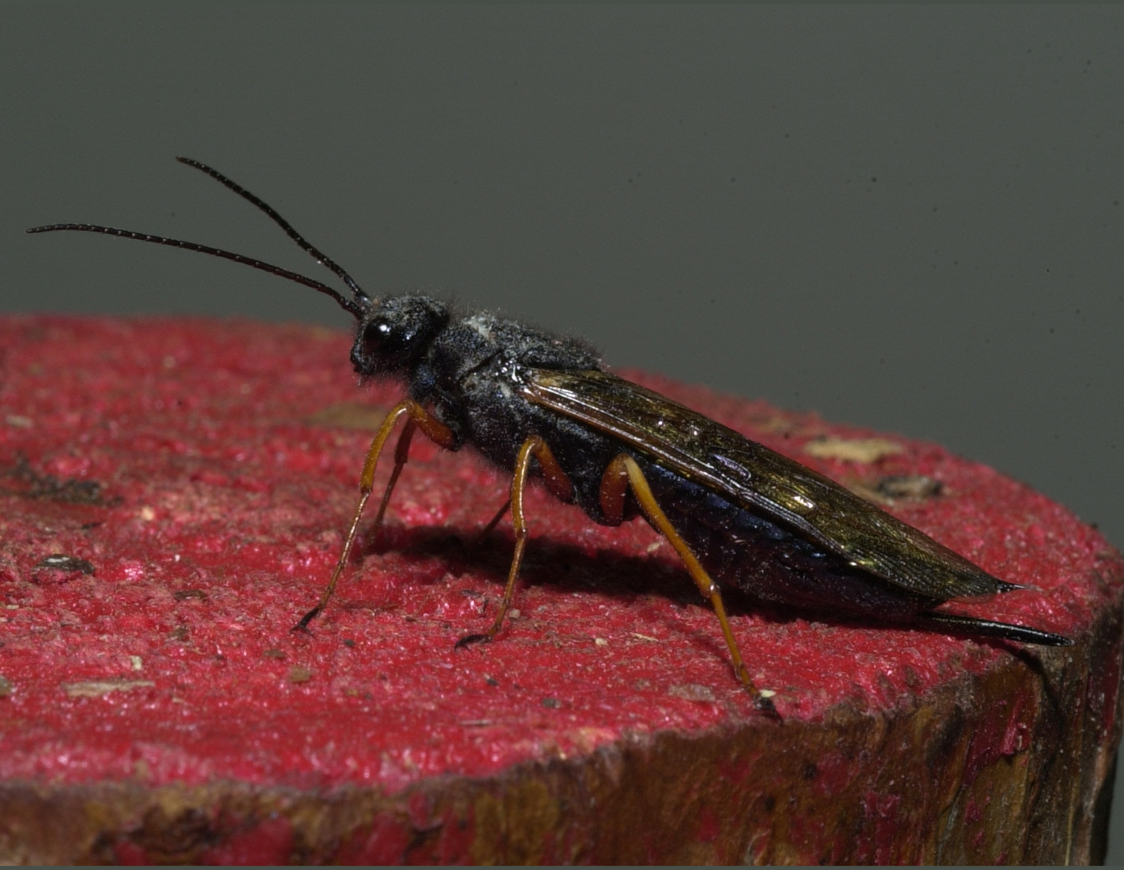 Sirex Woodwasp (Sirex noctilio), female